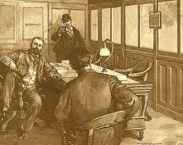 A drawing from Harper's Weekly of Alexander Berkman attempting to assassinate Henry Clay Frick.